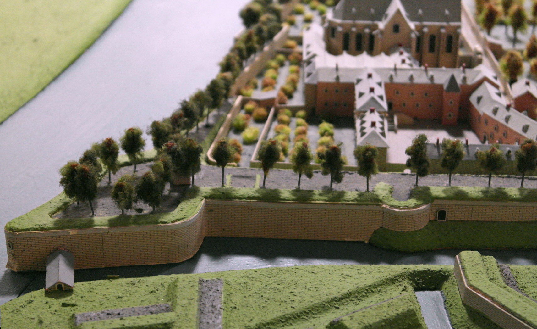 Detail of the copy of the French Maquette of Maastricht on display in Centre Céramique, Maastricht, the Netherlands. The copy was made in 1974-1982, based on the mid-18th-century scale model made for King Louis XV of France. This section shows the northern city wall near the river Meuse and the so-called Biesen Bastion, which was situated near Nieuwen Biesen, the local commandery of the Teutonic Knights (in the background).